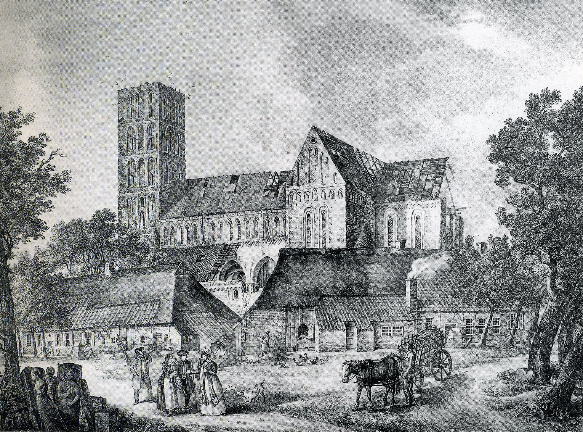 Church of Marienhafe during deconstruction. Lithographic print by D. Bendixen